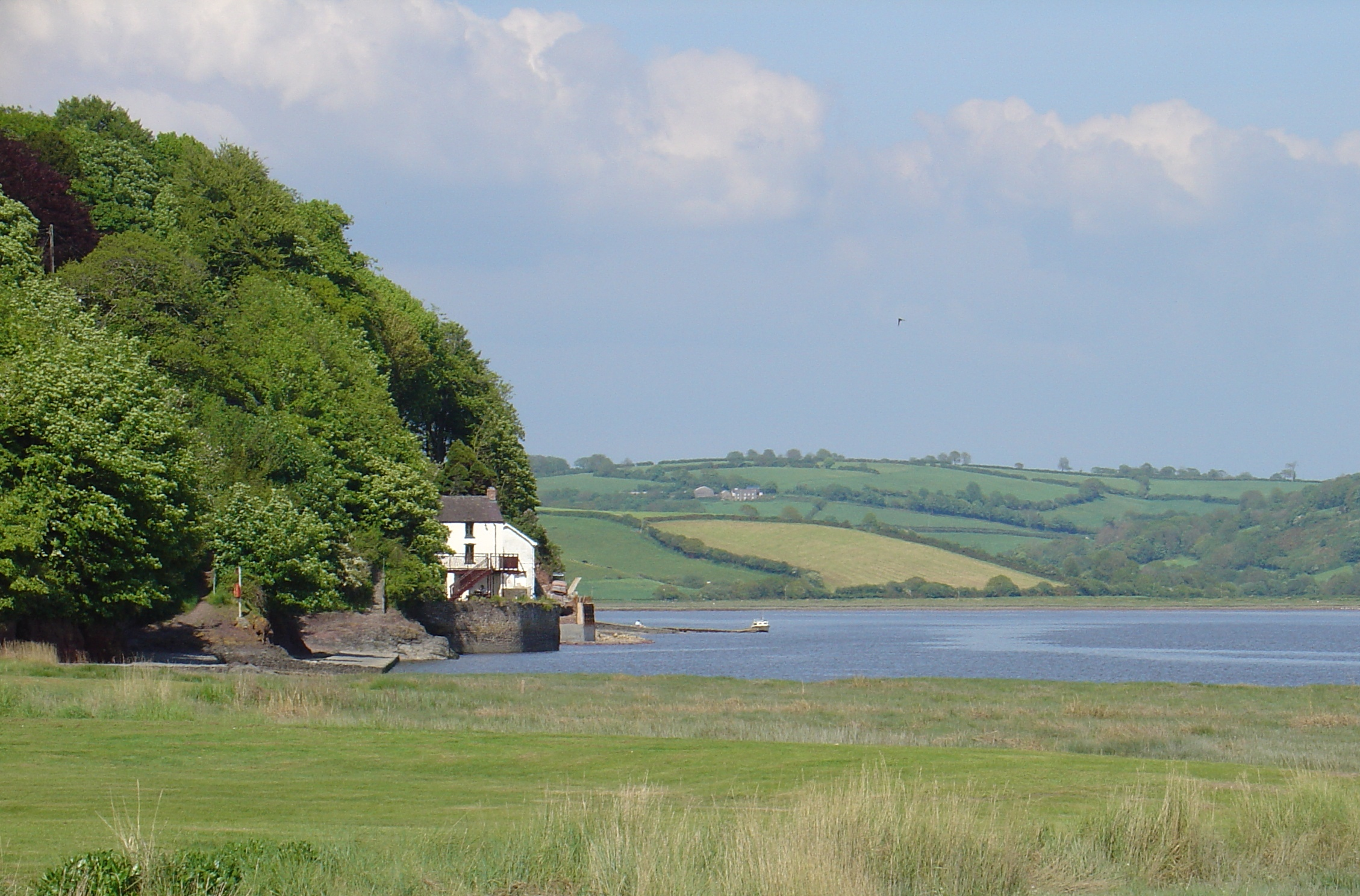 Dylan Thomas's boathouse at Laugharne, Carmarthenshire, Wales, viewed across the foreshore from the south.